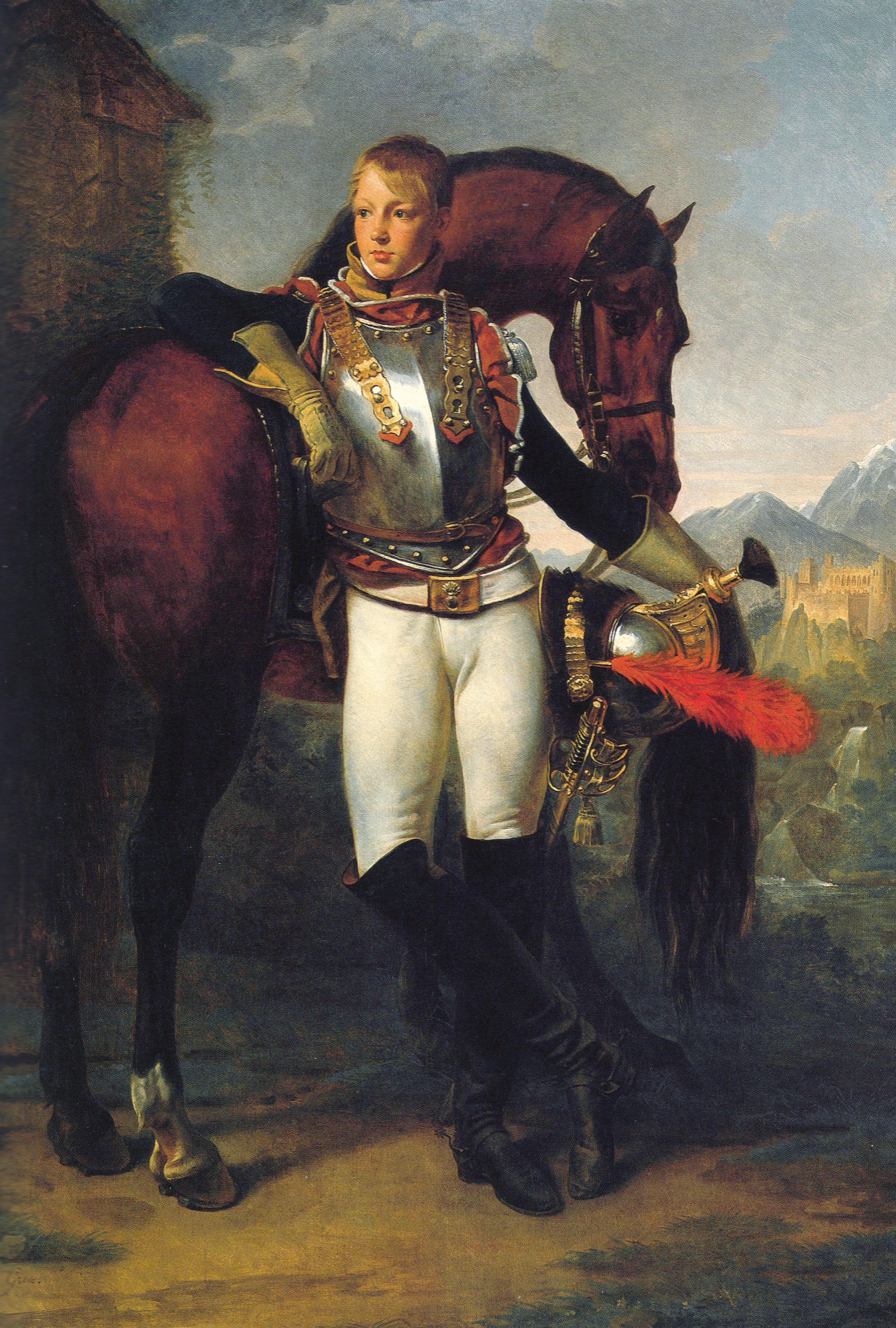 A portrait of Charles Legrand, a French cuirassier and the son of General Claude Juste Alexandre Legrand